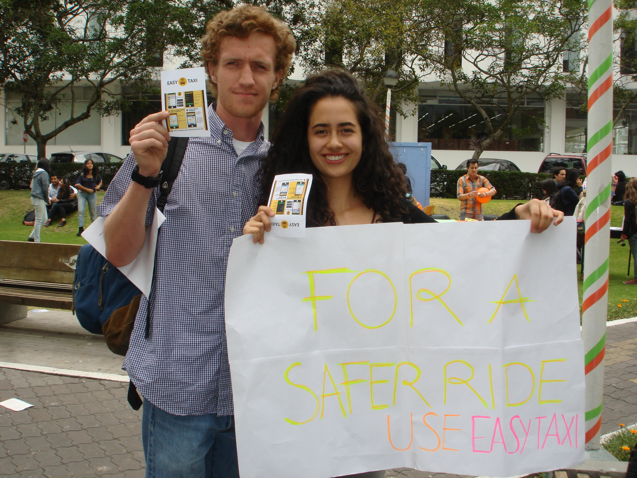 Demonstration of how cultures express ther emotions in affective culture like in Ecuador or neutral cultures like in US